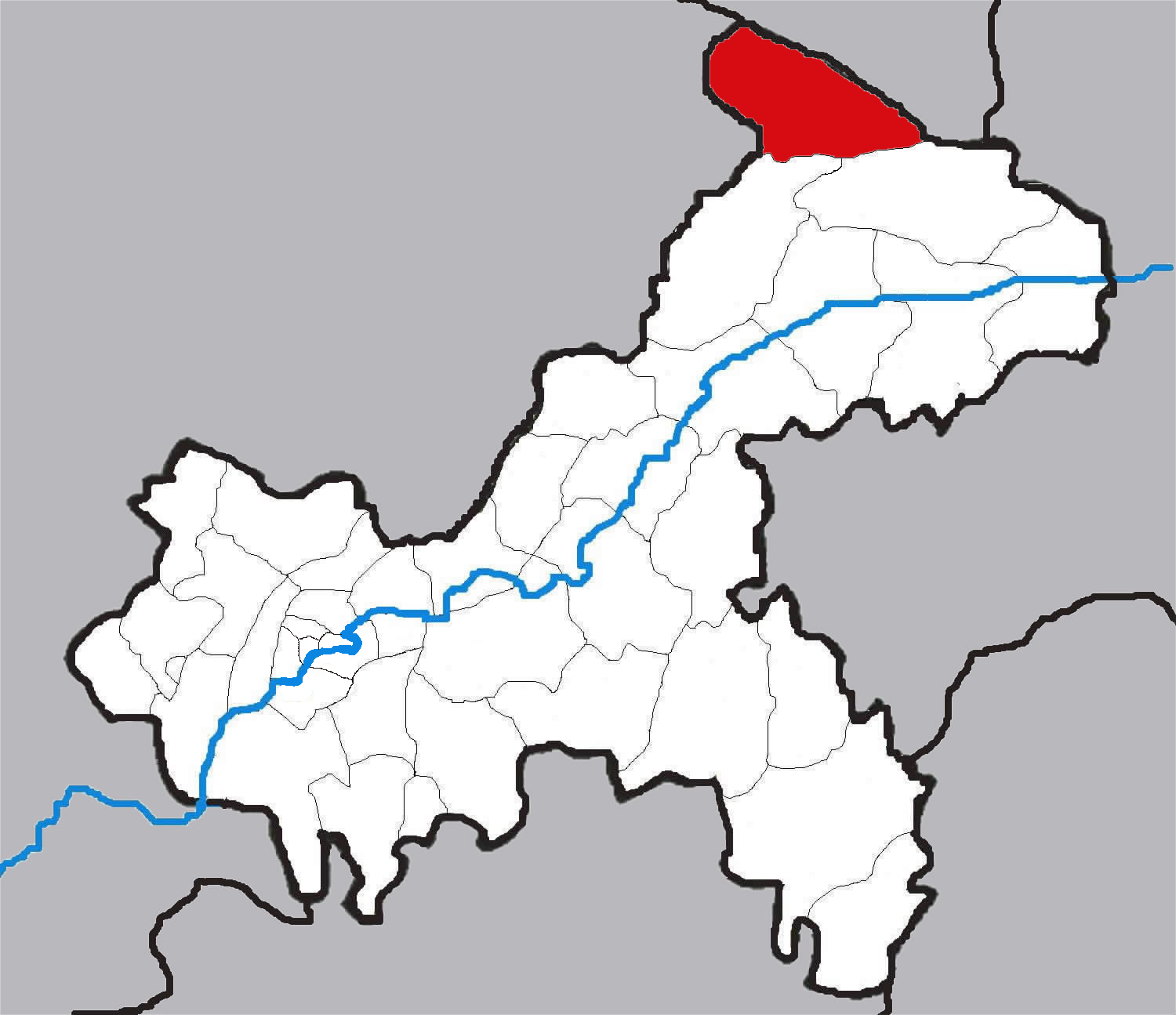 Administration maps of Chongqing, China